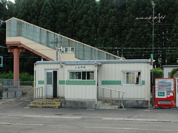 Kita-Kanaoka Station